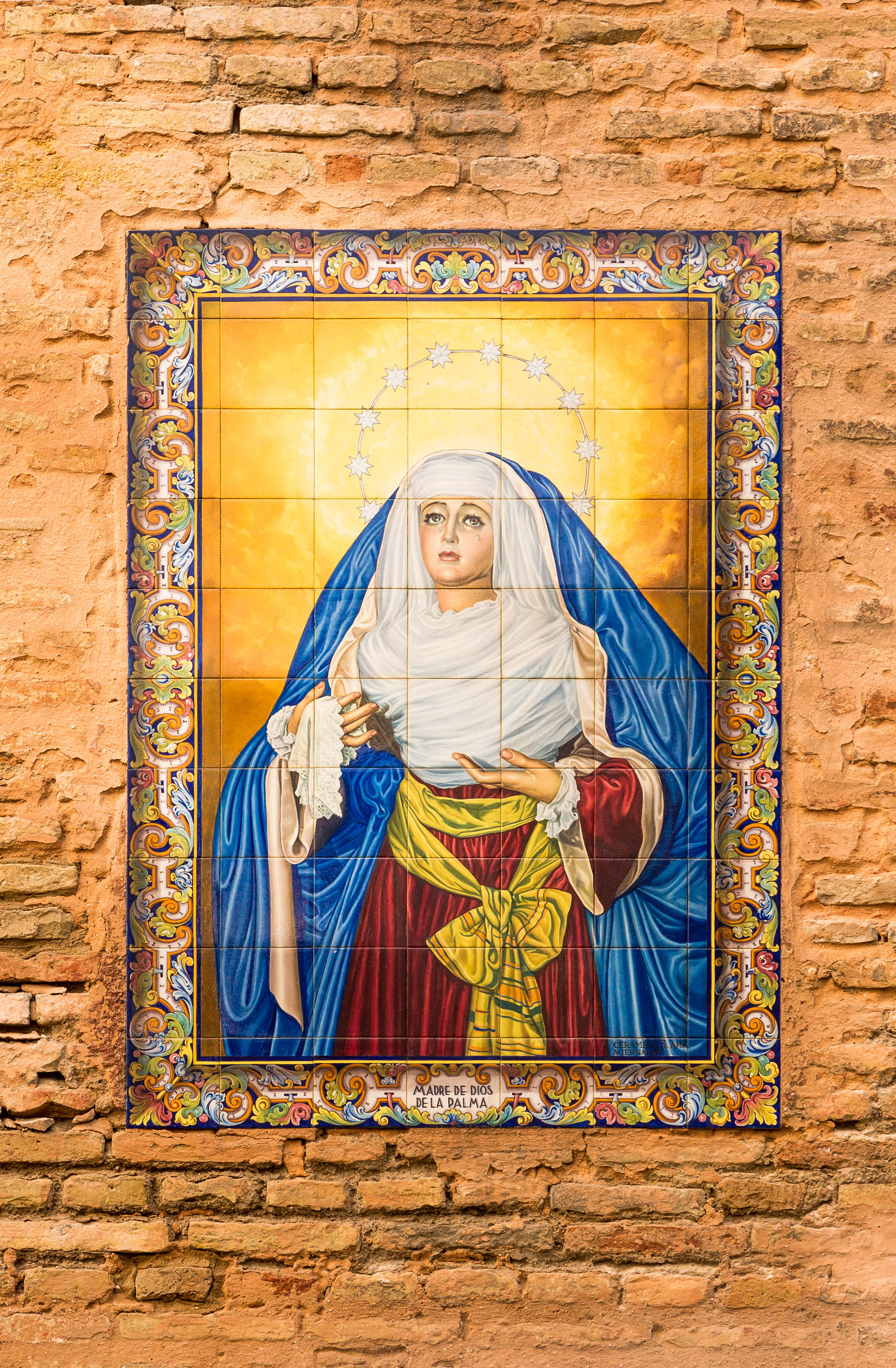 "Madre de Dios de la Palma", tiles on a wall in a street of Seville, Spain.